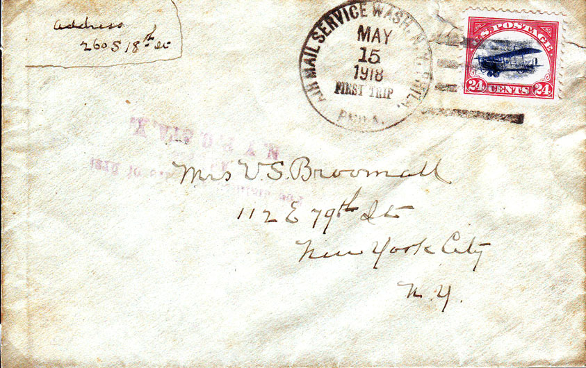 Cover flown on the first day of scheduled Air Mail Service in the U.S. and franked with the first U.S. Air Mail stamp, the 24 Cent "Jenny" (C-3). Cancel: "AIR MAIL SERVICE - WASH. N.Y. PHILA." "MAY 15, 1918 - FIRST TRIP" "PHILA." (Type: USPOD CDS w/killer bars) Sourrce: The Cooper Collection of U.S. Aero Postal History